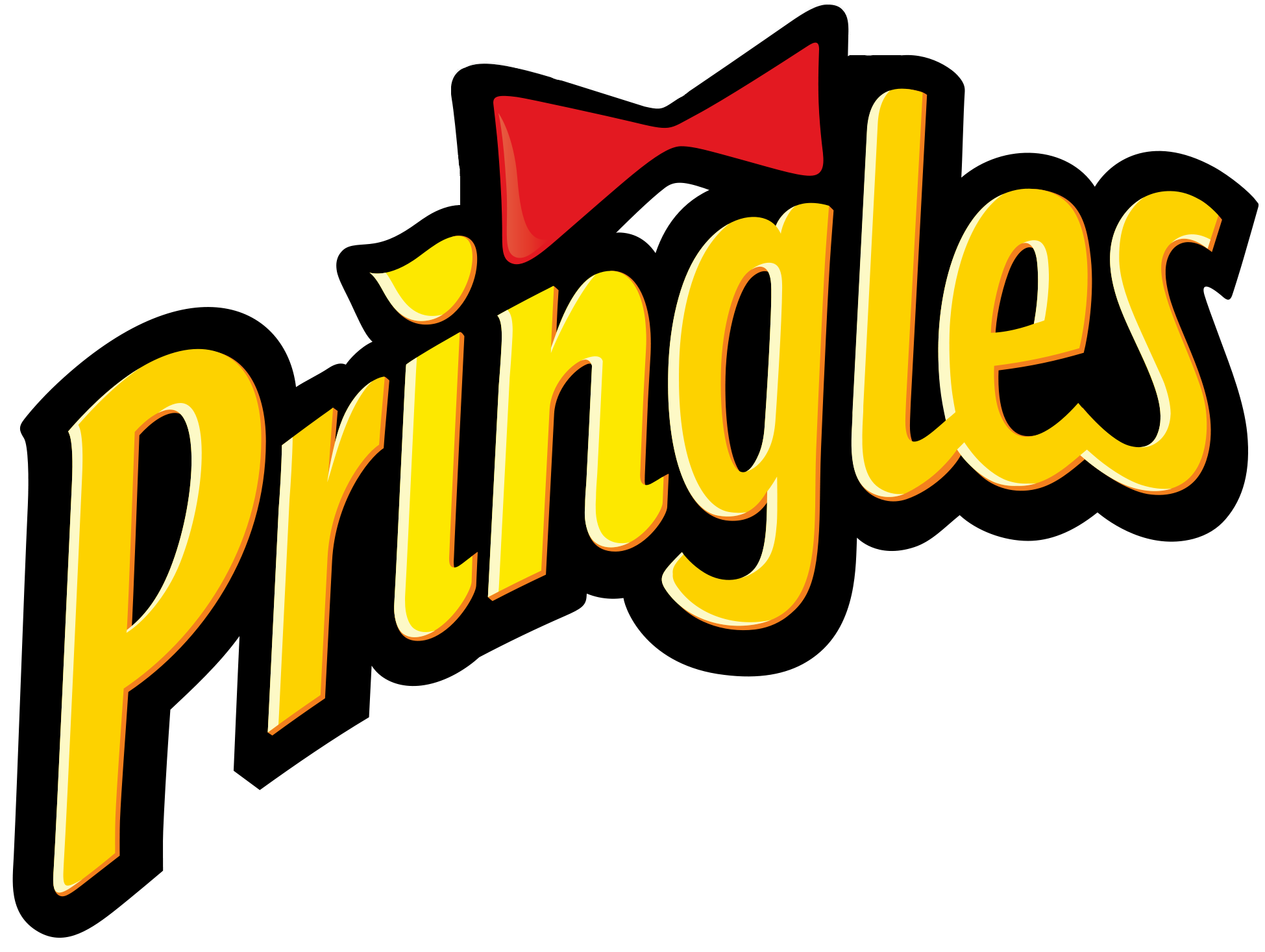 Pringles logo with out face, is a brand of potato- and wheat-based stackable snack crisps owned by the Kellogg Company.